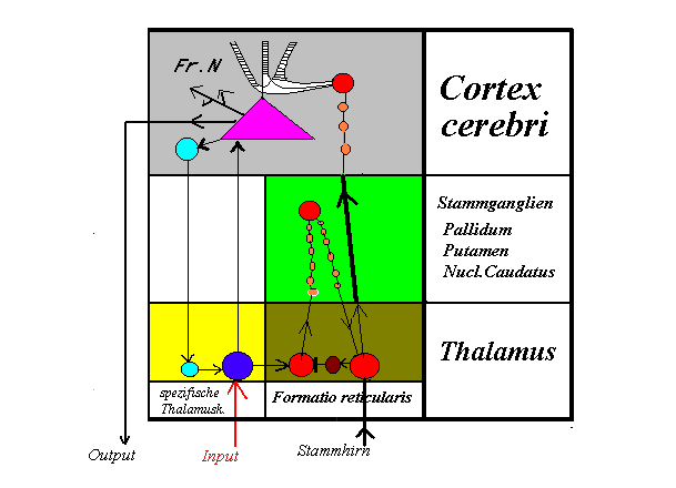 ARAS-Thalamus-Cortex